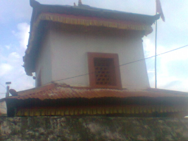 Narayan Mandir